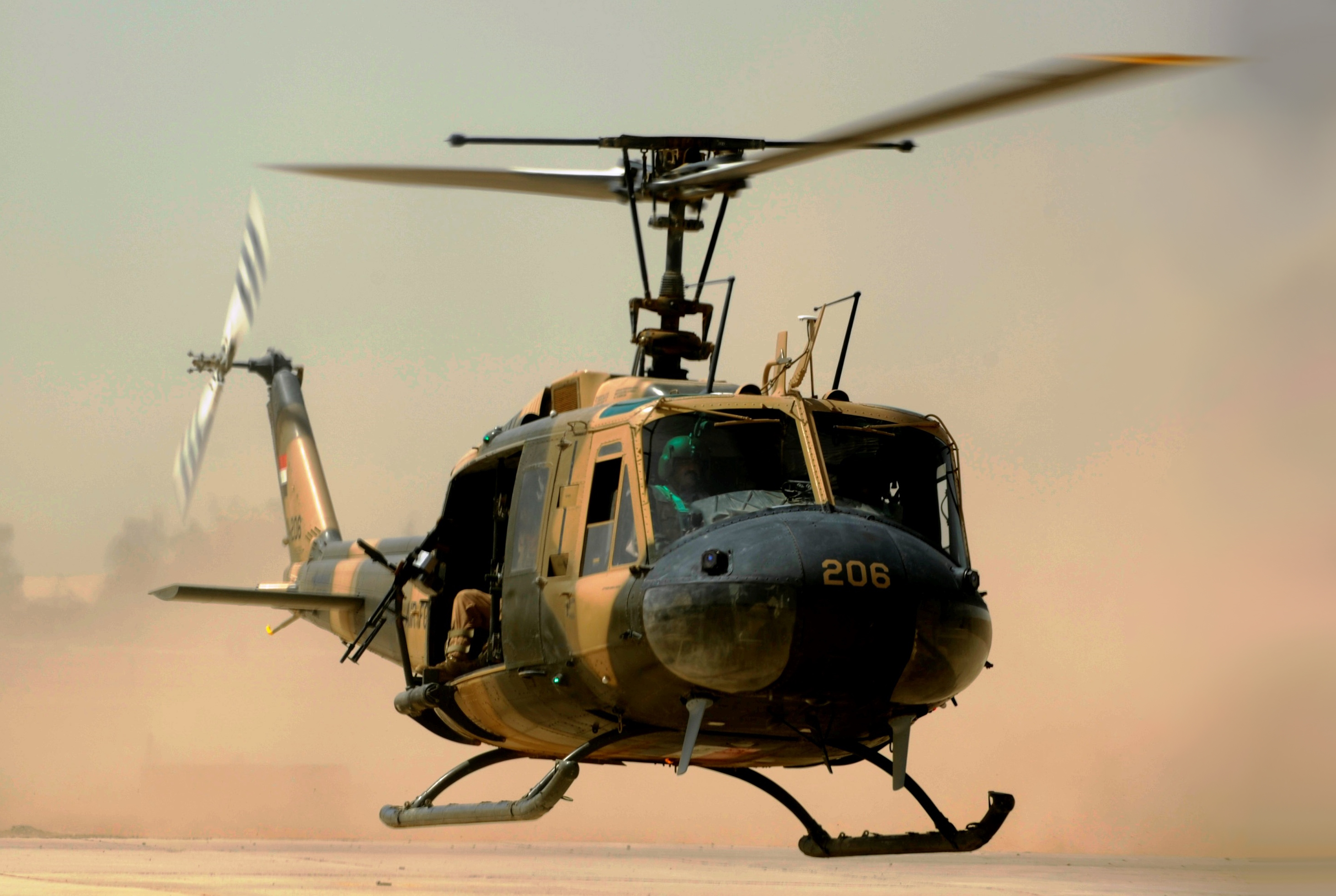 cropped image of an Iraqi air force UH-1H II Huey helicopter